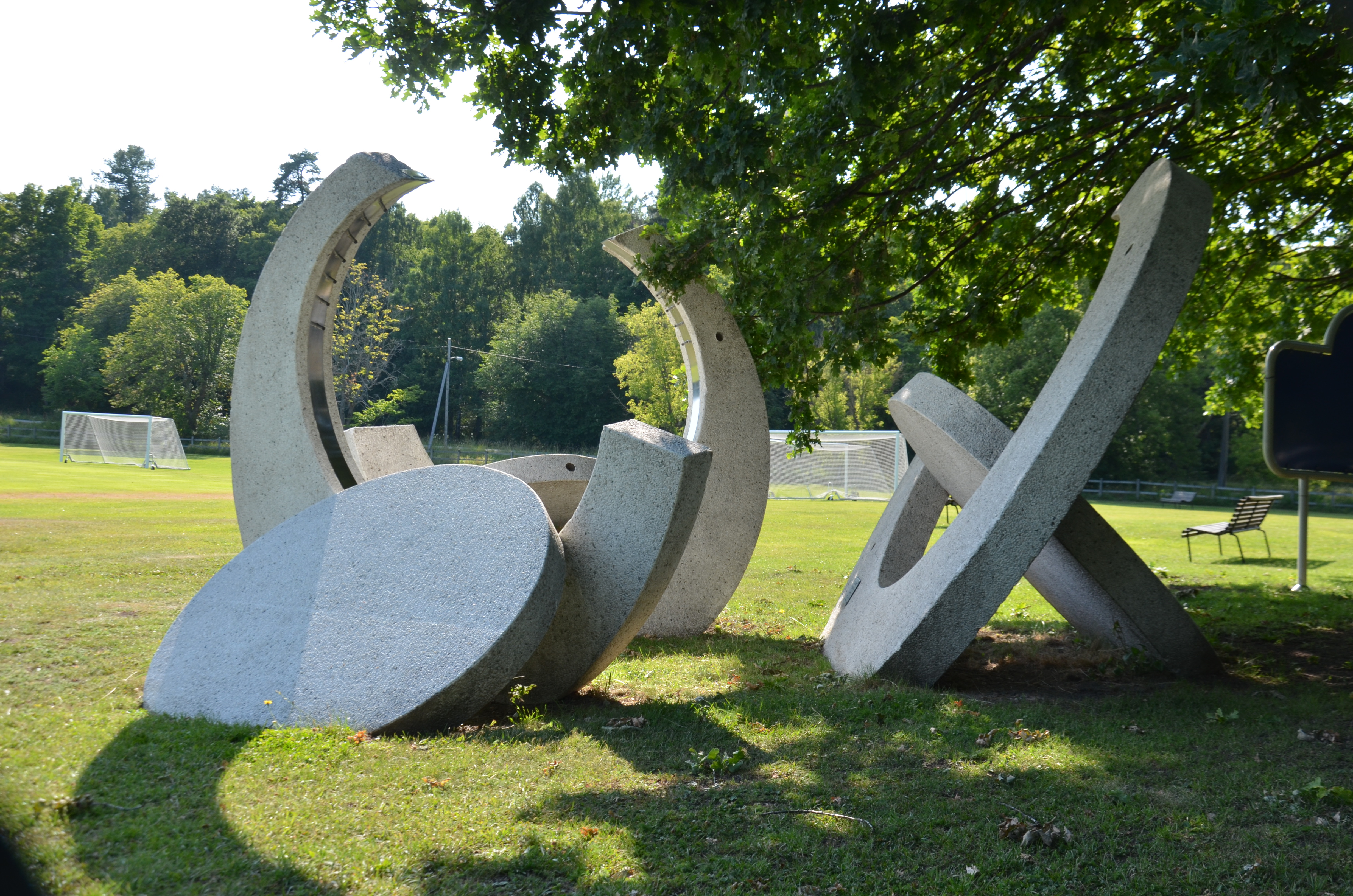 Elli Hembergs Solidaritet mellan folken, Kaknäsvägen 30 i Stockholm